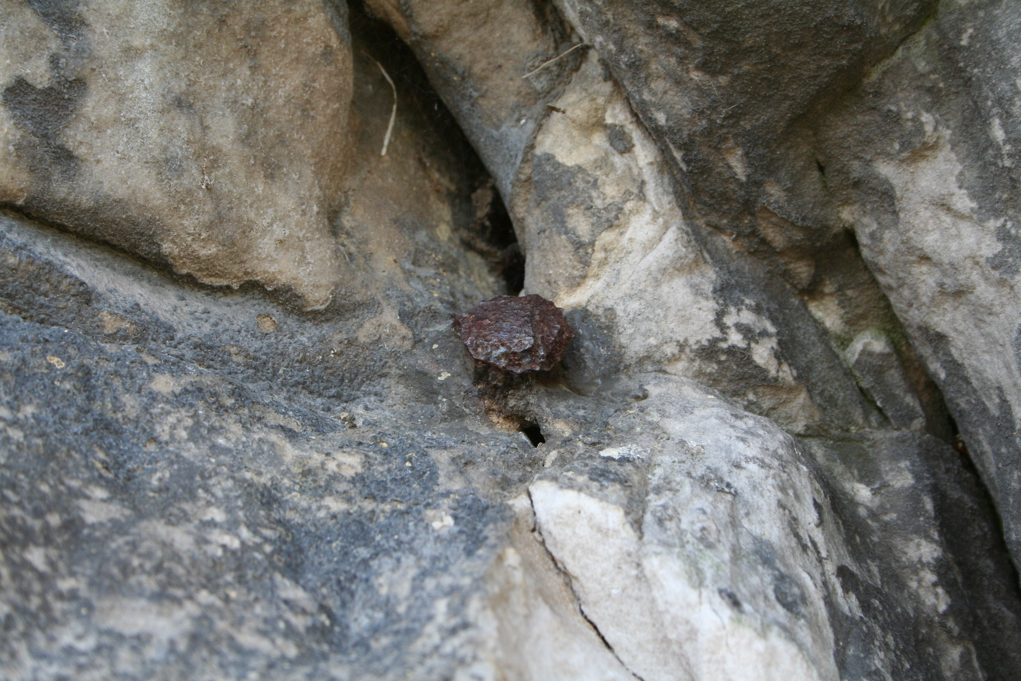 Iron nail driven in the menhir "Steinerne Jungfrau" ("Stone Virgin") at Dölau, Halle (Saale)